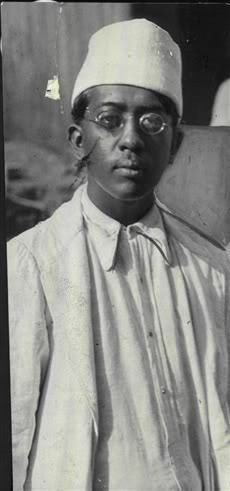 Devdas Gandhi, fourth son of Mohandas Gandhi.